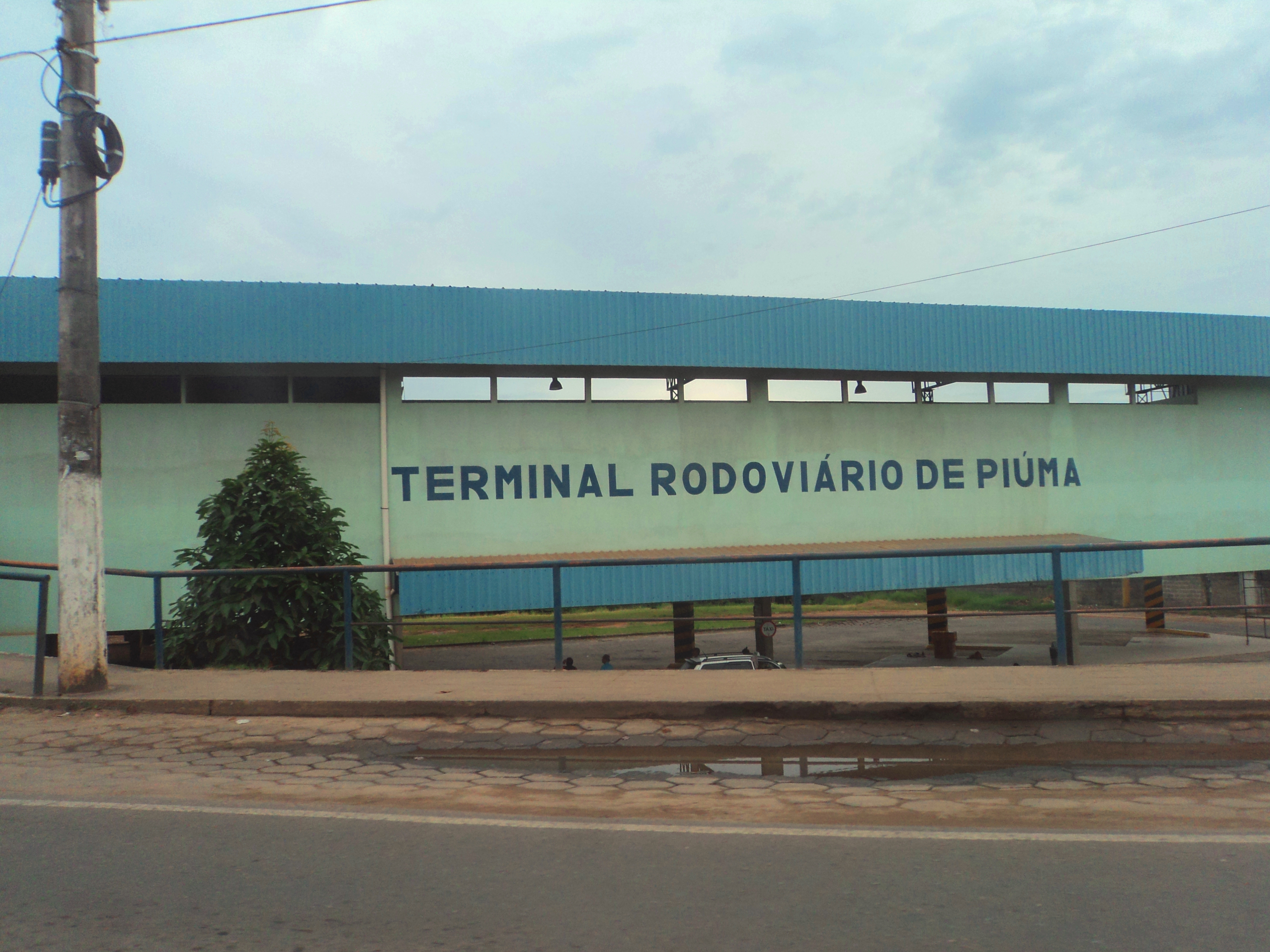 Front of the Juracy Bassul bus station, in Piúma, Espírito Santo, Brazil.